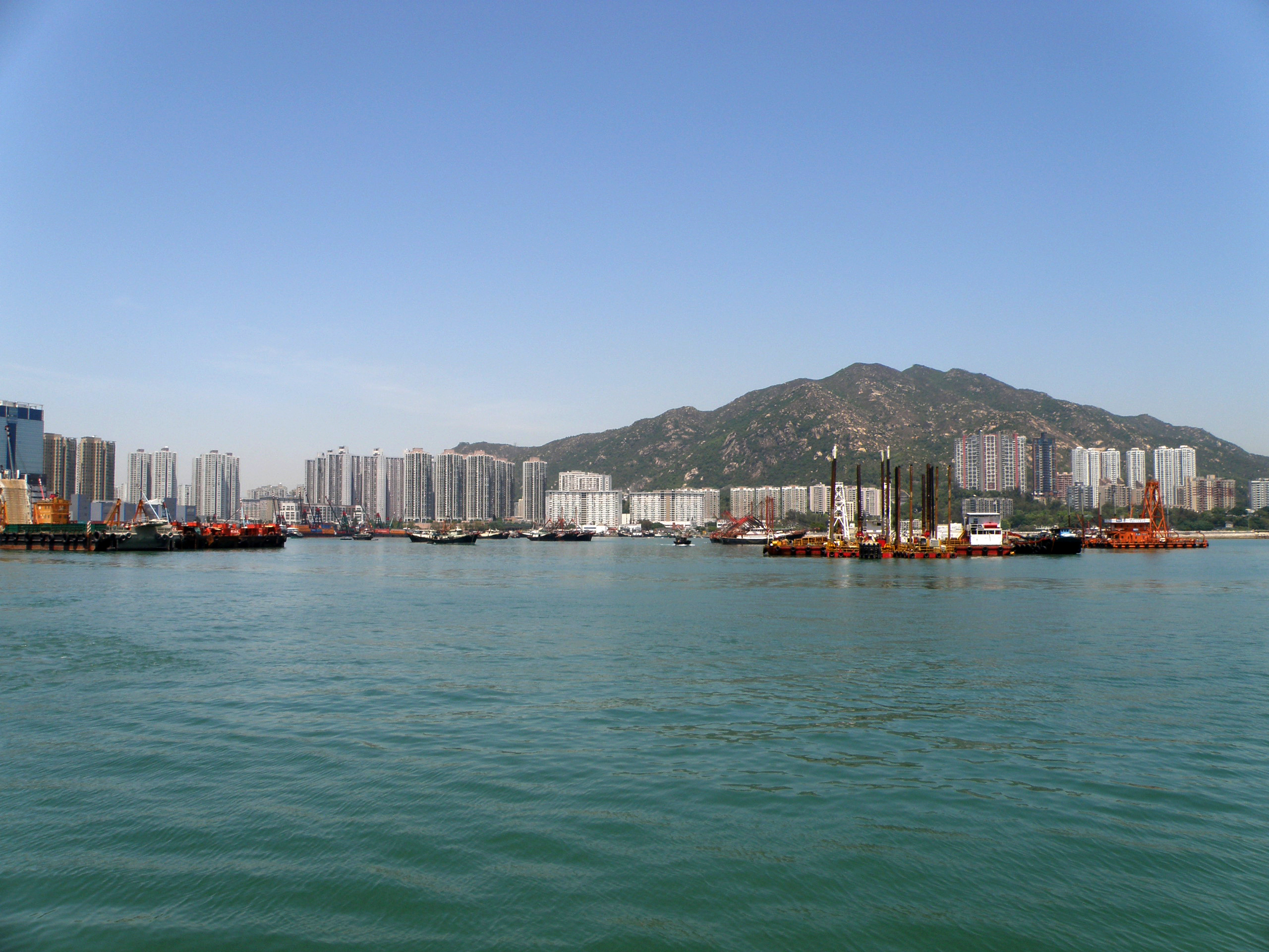 Castle Peak Bay in Tuen Mun, Hong Kong.